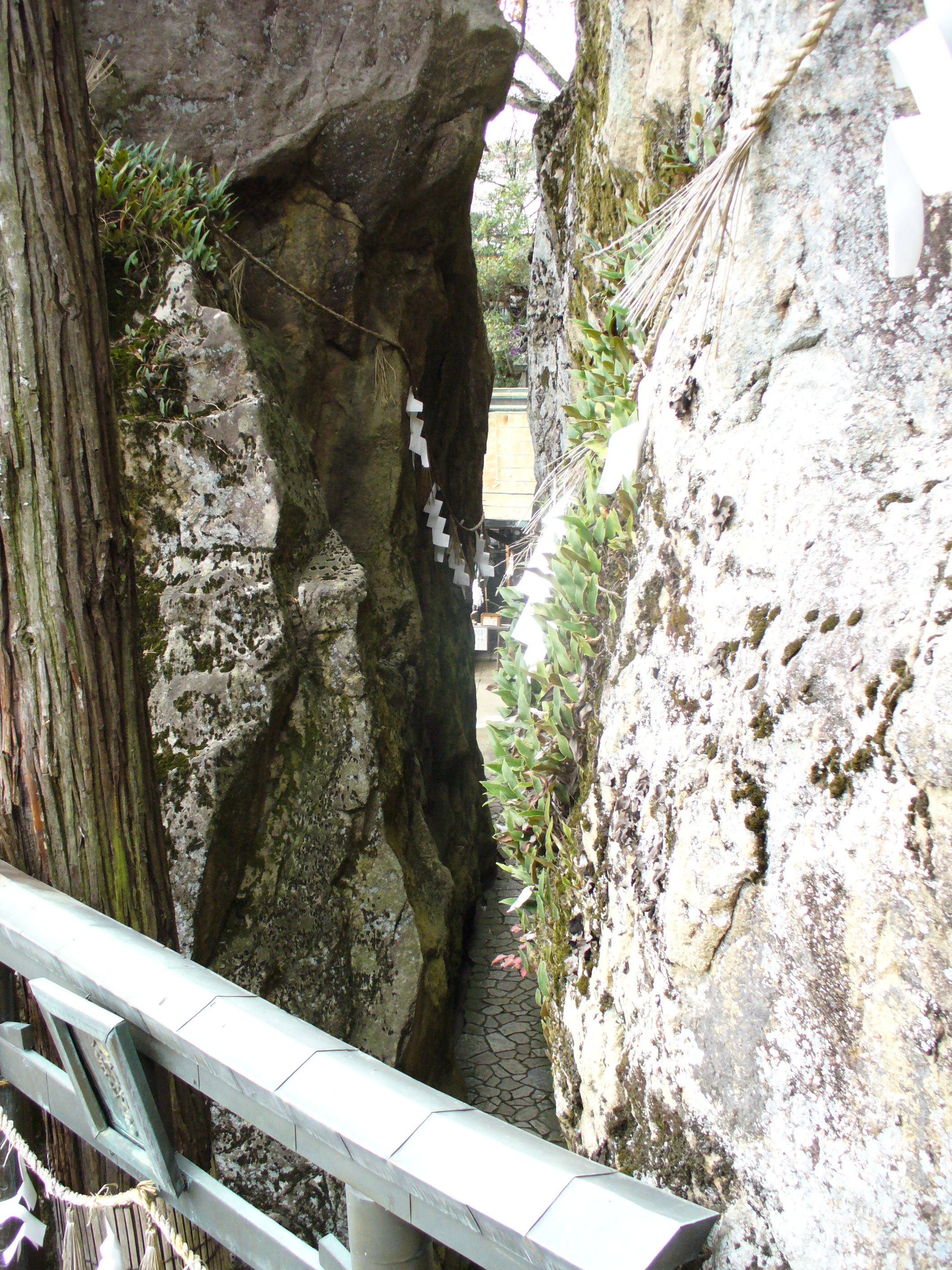 Photograph of Taroubougu Meotoiwa（太郎坊宮 夫婦岩）, taken in Higashioumi city, Shiga, Japan.